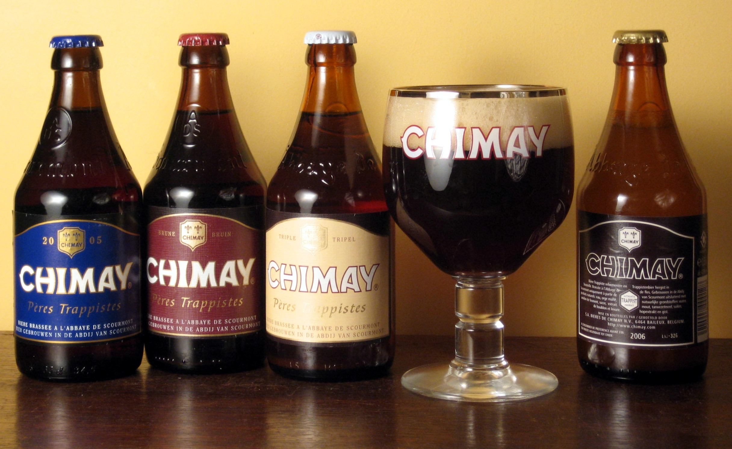 The four varieties of Chimay Trappist beer.In the customary Chimay glass is the Chimay blue.The rightmost (Dorée) is only normally available at the monastery or its associated inn. Update by Charly H Chimay is an authentic Trappist beer that is it is brewed within a Trappist monastery, under the control and responsibility of the monastic community. Official website: Only 6 beers in Belgium are "Trappist": Chimay, Orval, Rochefort, Westmalle, Westvleteren and Achel. La Chimay Rouge: 7% alc.vol. La Chimay Triple: 8% La Chimay Bleue: 9% Note that since 1876, the Trappist monks of Scourmont have known the secrets of making cheese! Beer and cheese : gr8 combination ;-)